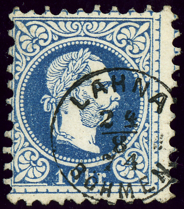 Austrian KK 10 kreuzer stamp, fingerhut cancelled Lahna Böhmen in 1874, Bohemia, district Schlan (Slaný)